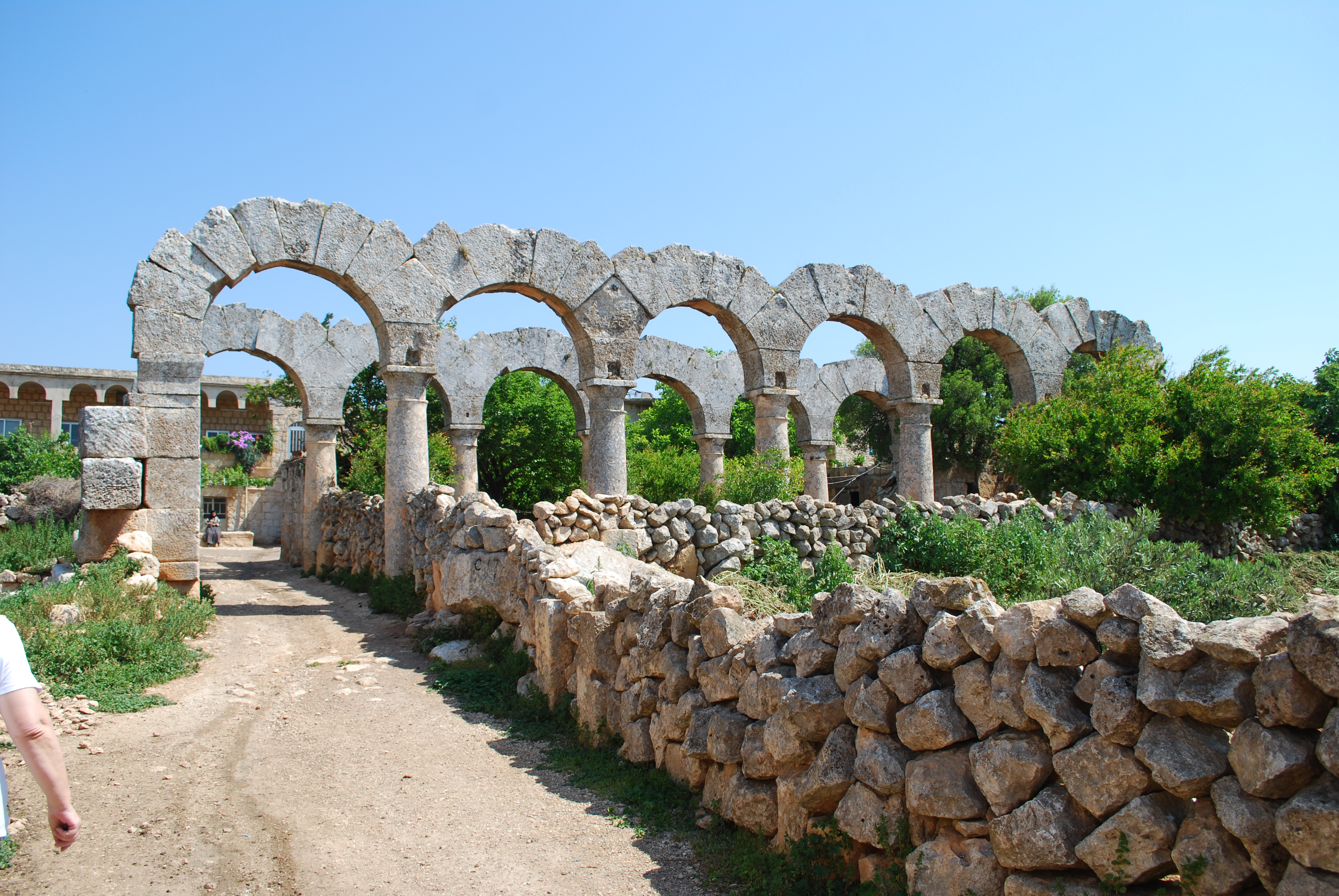 Monastery, Burj Ḩaydar in 2004